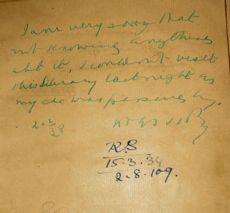 Mahathma Gandhiji's writing from visitors book at Lalaji library, Karunagappally.